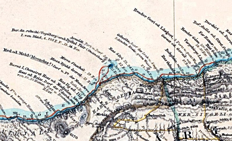 Map of the Daallo mountain Ranges and coastal sanaag showing Garhajis (Habar Yoonis) settlements